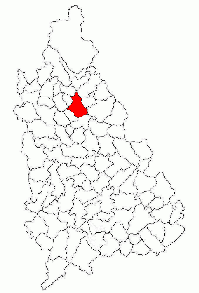 Locator map of the Town of Pucioasa in Dâmbovița County, Romania